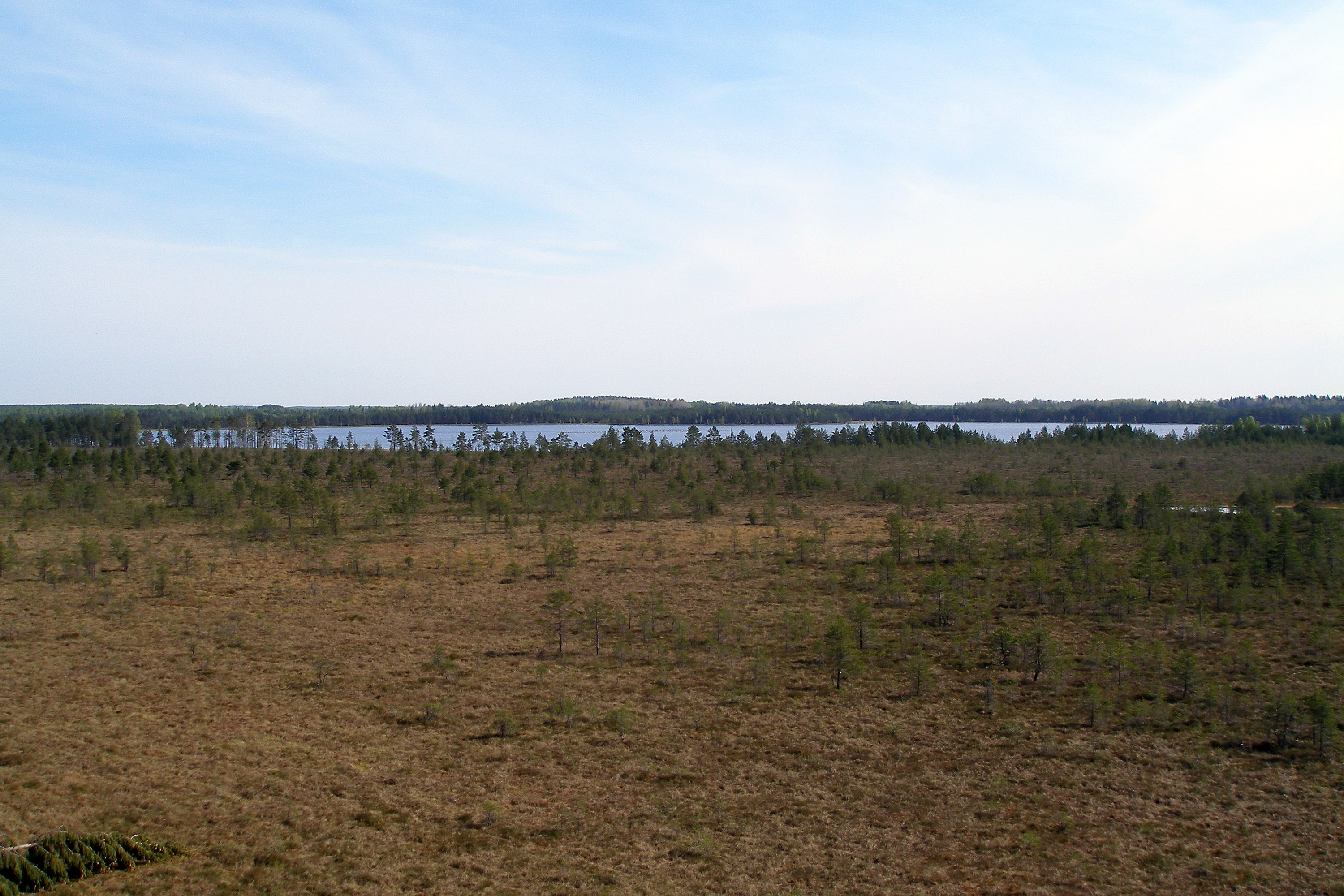 Ohepalu Lake in Lääne-Viru County, Estonia.